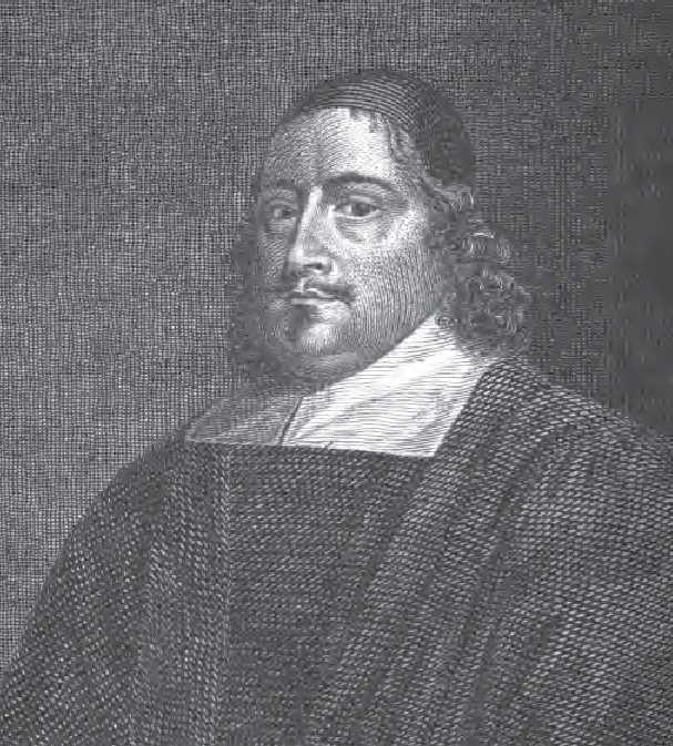 John Dolben, Archbishop of York